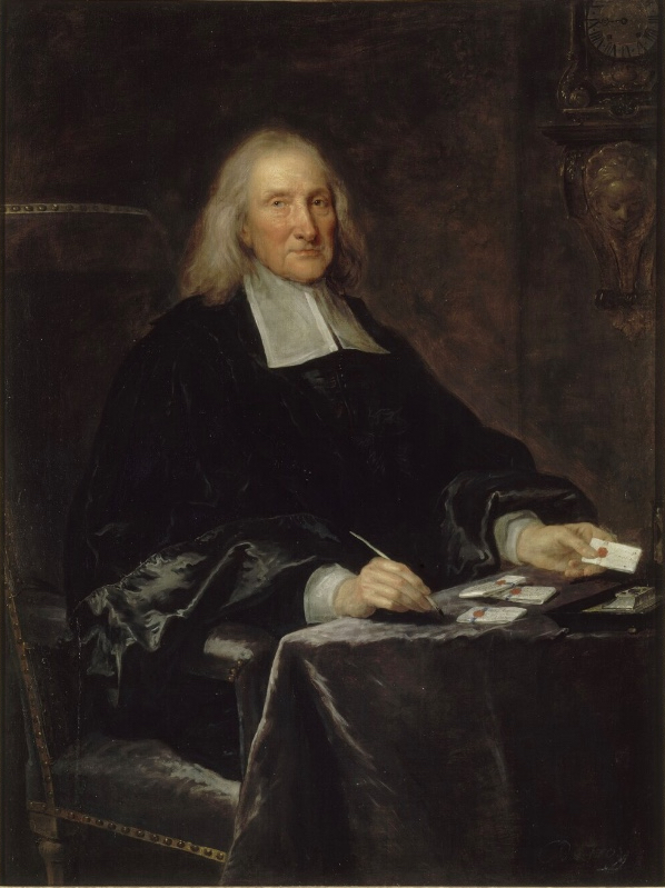 Toussaint Rose, marquis de Coye (1611-1701), président de la Chambre des comptes, secrétaire "de la main" de Louis XIV